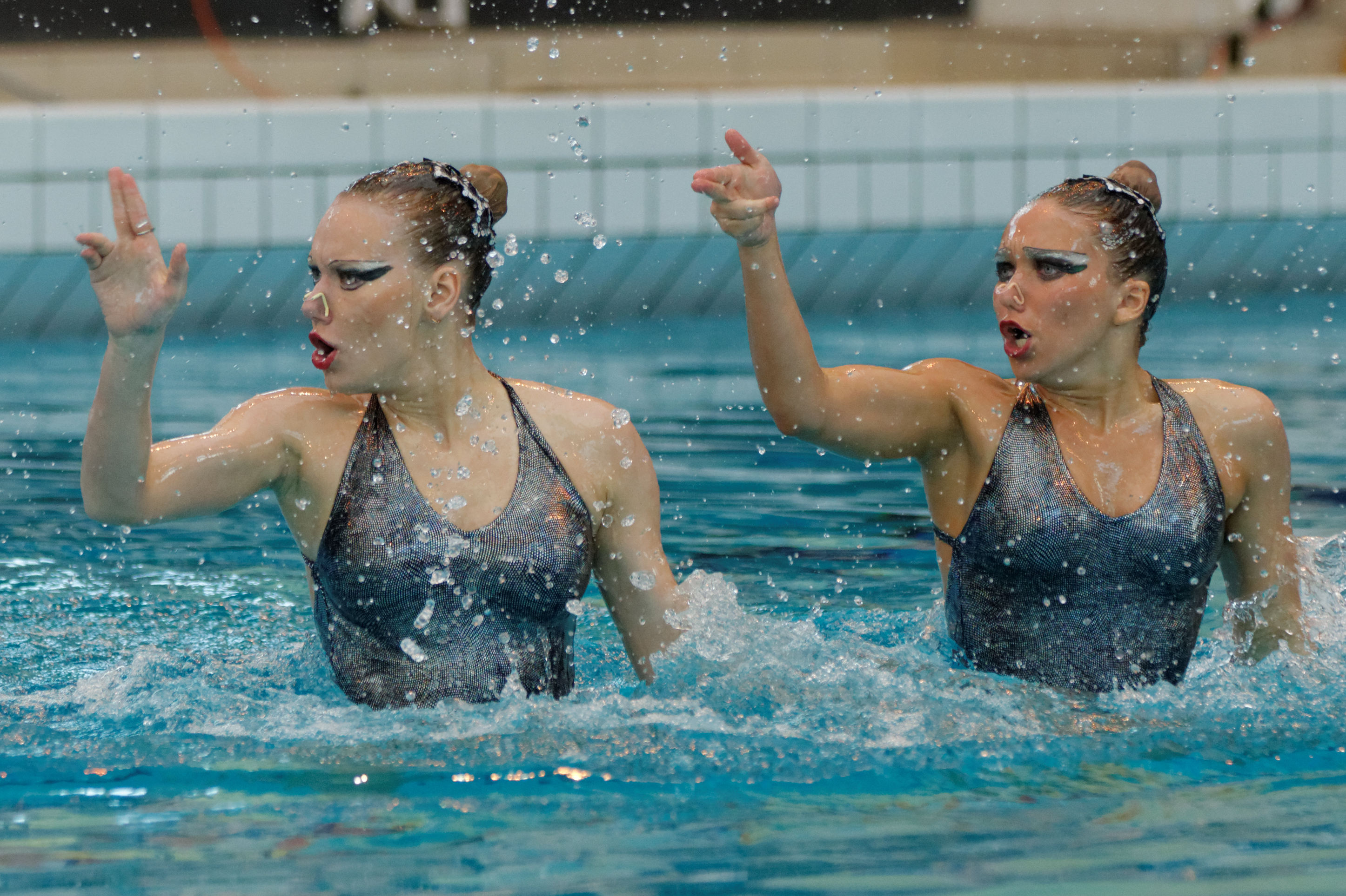 Russian synchronized swimmers Alla Vaskovich and Alena Zhebeleva, in a Duet exercise during the French Open in Montreuil, March 14, 2013.